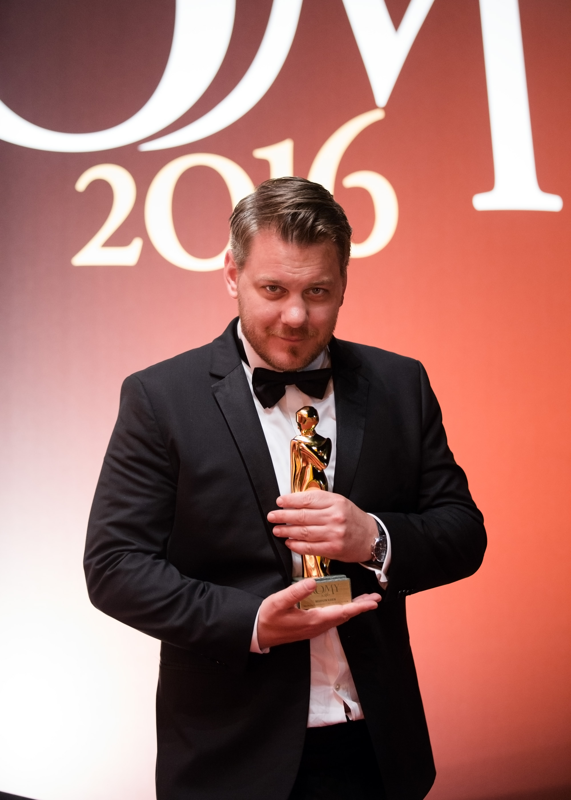 Marvin Kren on the red carpet of the Romy TV awards 2016 at Hofburg Palace in Vienna, Austria.